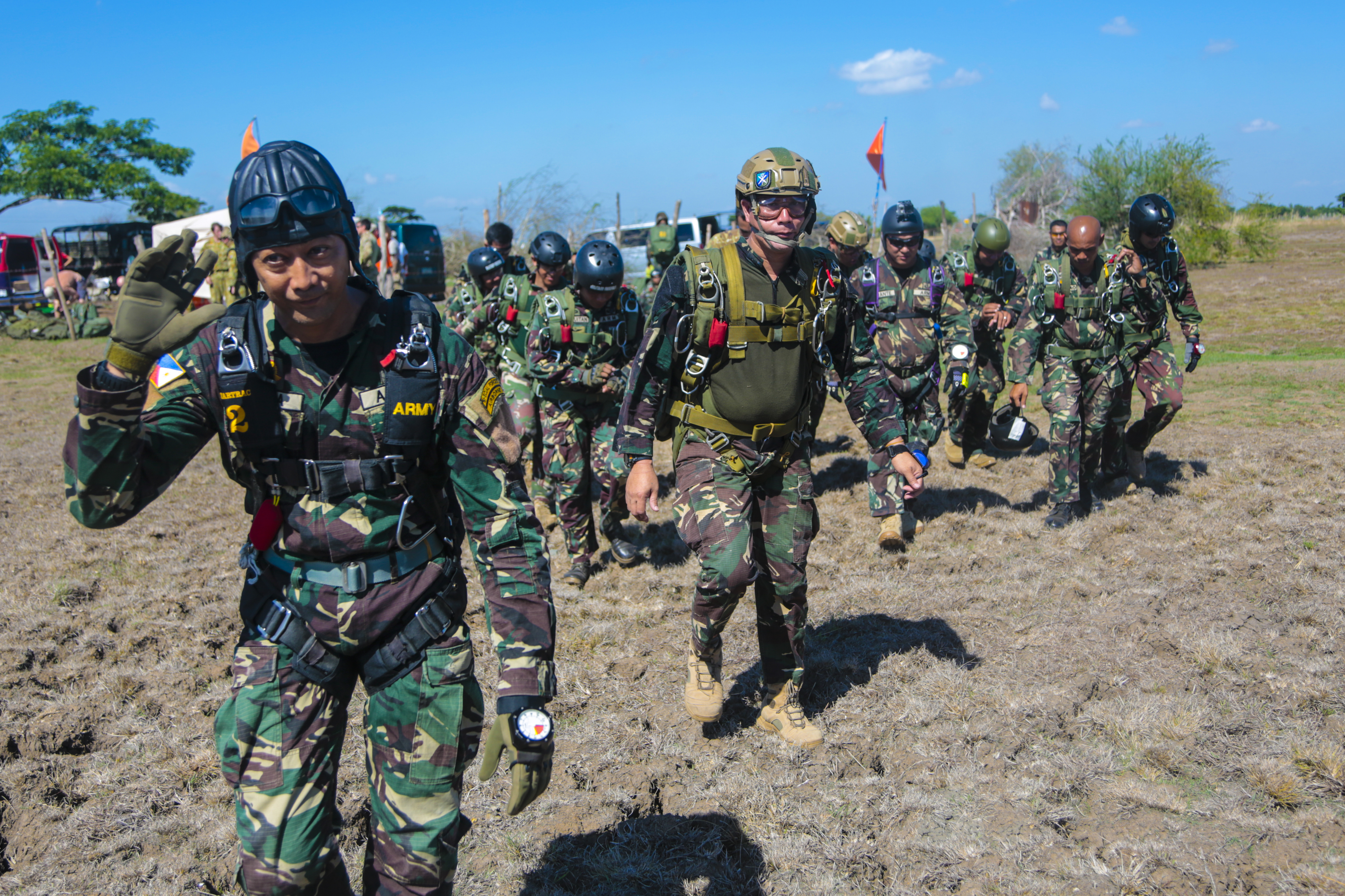 Philippine Airborne Special Forces members walk from the staging area to a V-22 Osprey which will transport them to a height of 10,000 feet for an Airborne exercise during Balikatan 2014 on Fort Magsaysay, Philippines, May 6, 2014. This year marks the 30th iteration of the exercise, which is an annual Republic of the Philippines-U.S. military bilateral training exercise and humanitarian civic assistance engagement.(U.S. Army photo by Spc. Justin English/Released)